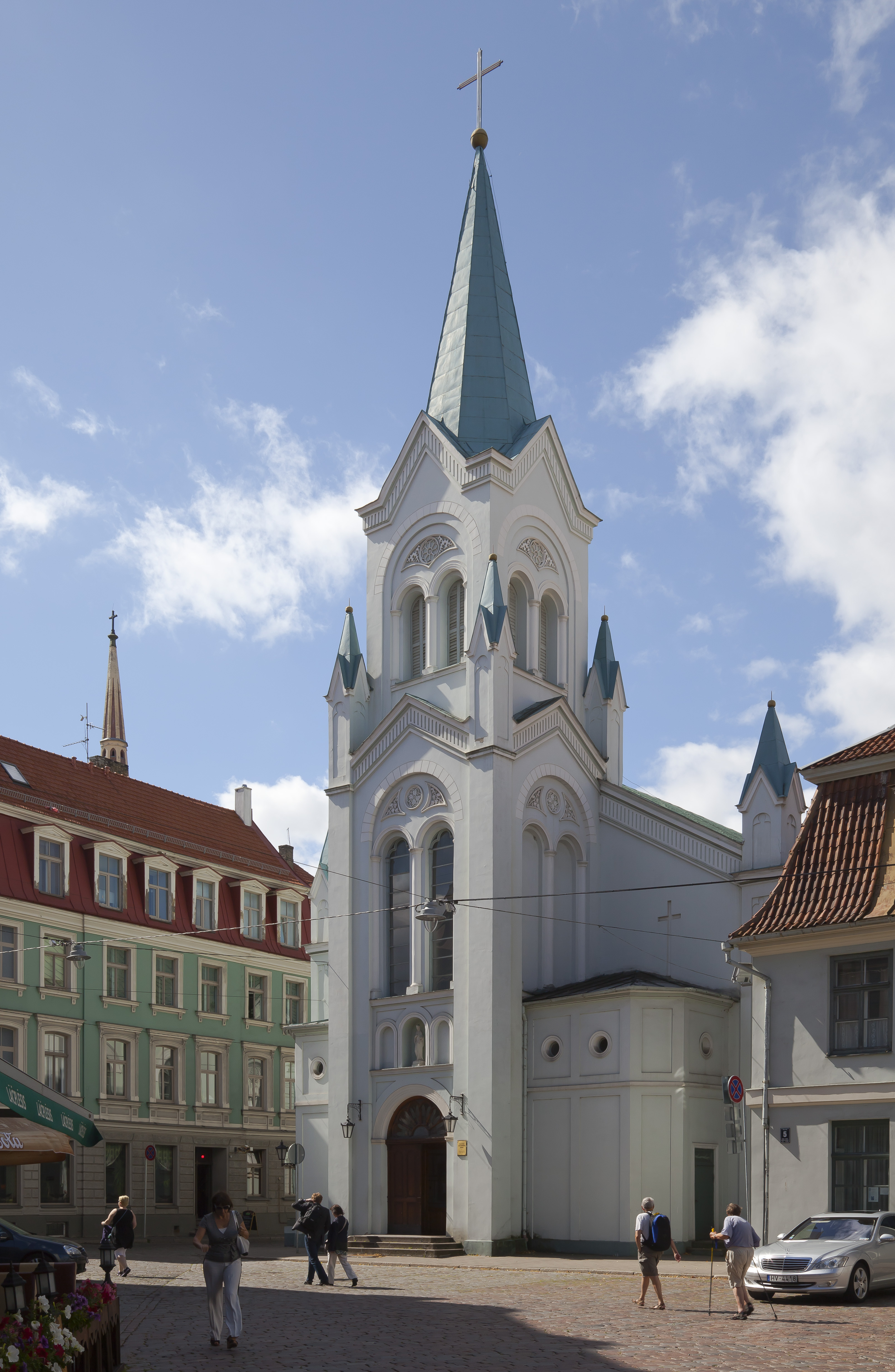 Church of Our Lady of Sorrows, Riga, Latvia